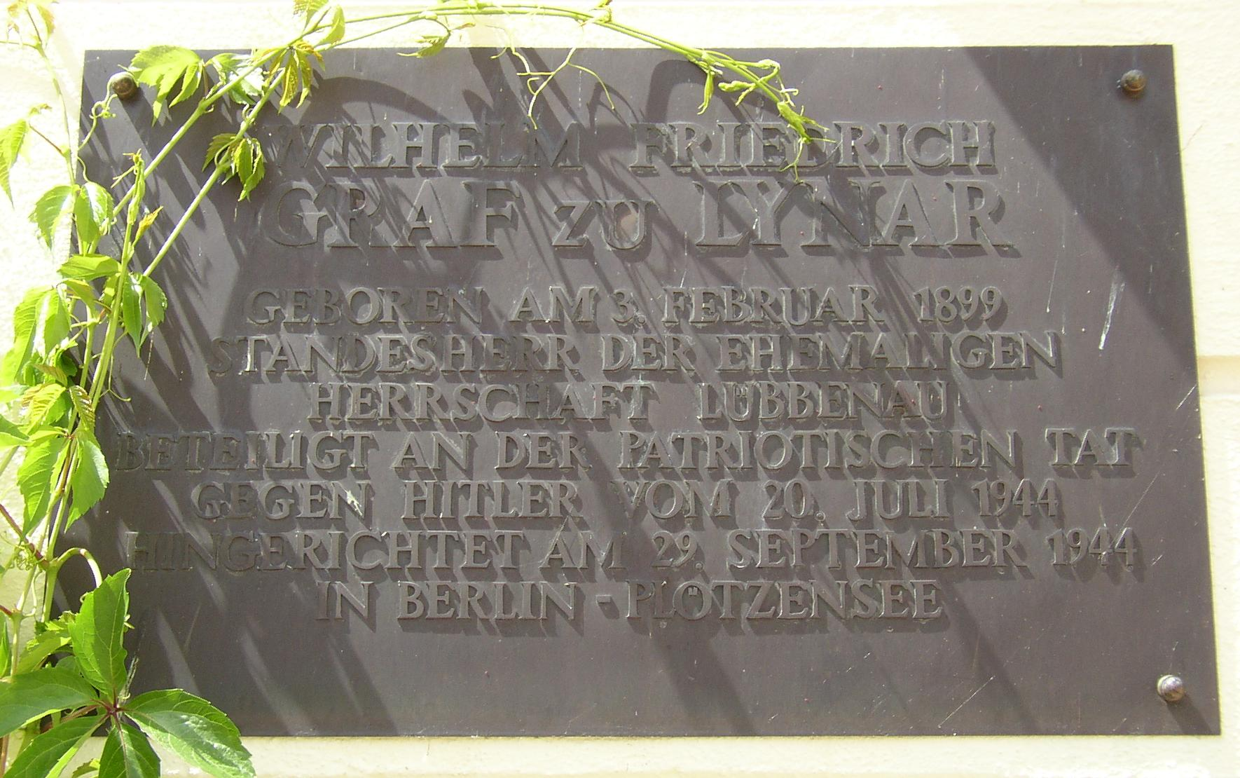 Memorial plaque for Wilhelm Friedrich Graf zu Lynar in Lübbenau in Brandenburg, Germany